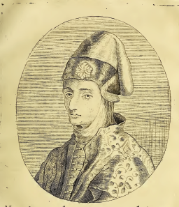 Neri_I_Acciauioli duch of Athens